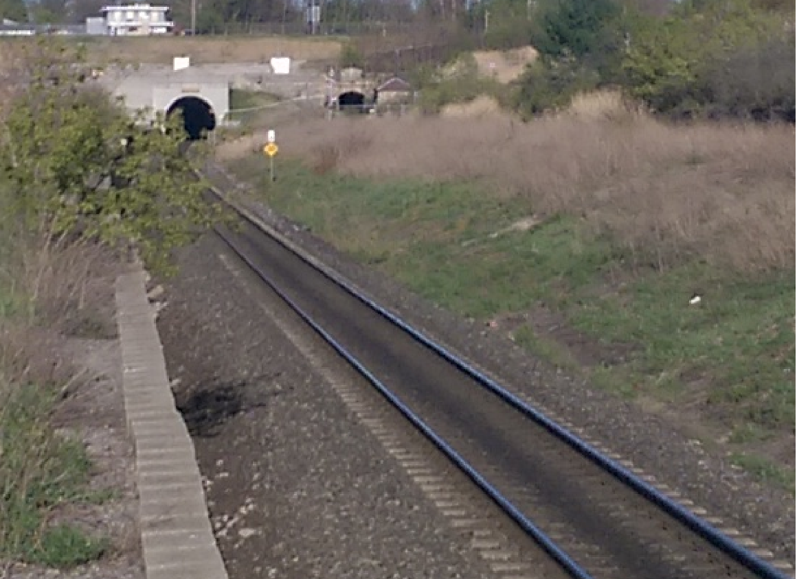 The St. Clair Tunnel west end, from Port Huron, Michigan